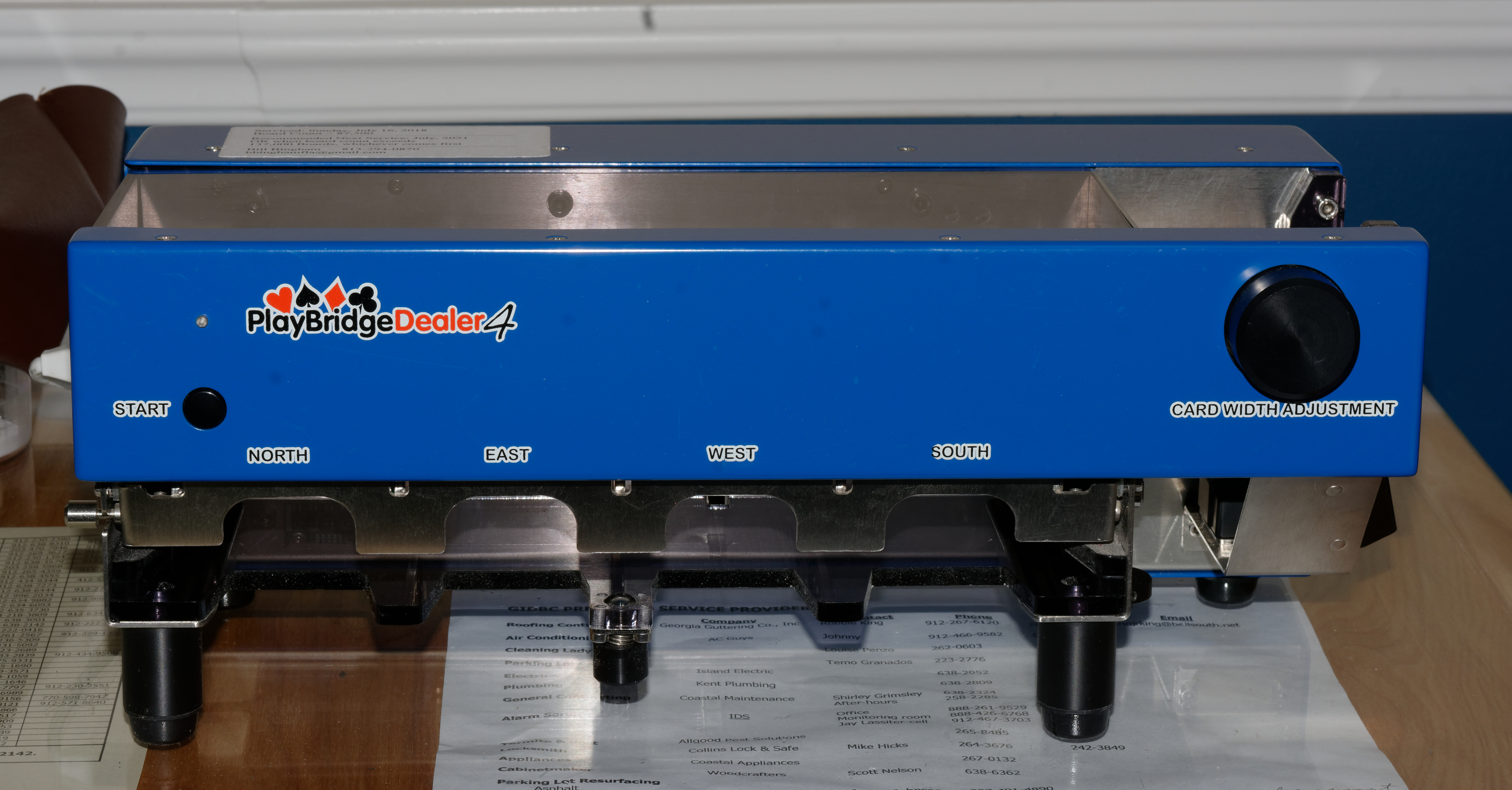 PlayBridge Dealer 4 machine - connects to a computer to deal random hands for the card game of bridge